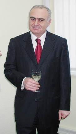 From left: Deputy Assistant Director Huizenga, Chairman Bitsadze, and U.S. Deputy Chief of Mission Perry, celebrate the signing of the Implementation Agreeement.